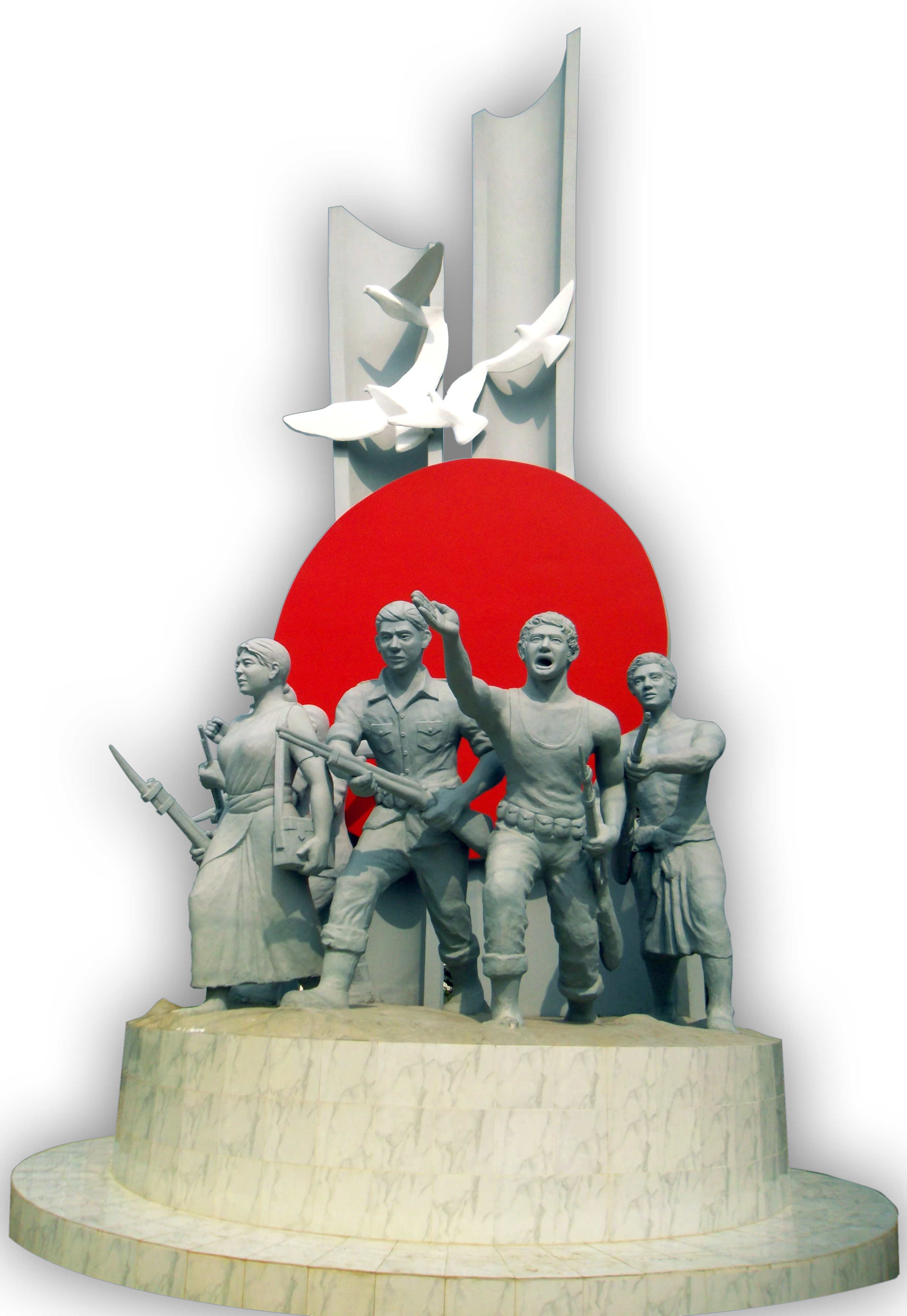 This is Prottoy71. Sculpture of MBSTU